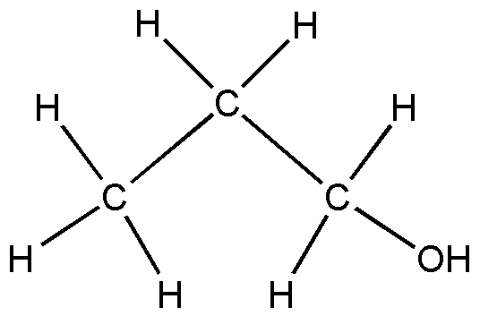 1-Propanol Chemical Formula: C3H8O Exact Mass: 60,05751 Molecular Weight: 60,09502 Elemental Analysis: C, 59.96; H, 13.42; O, 26.62